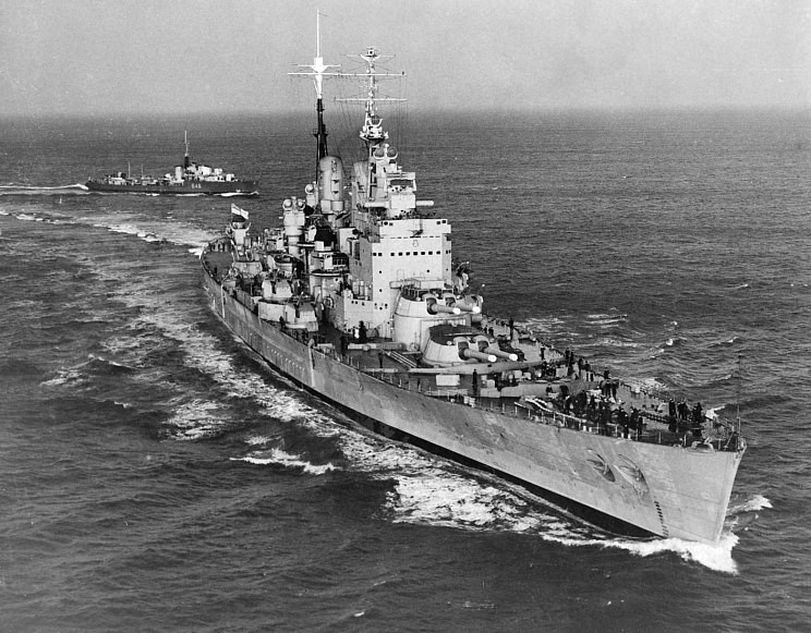 British battleship HMS Vanguard underway in 1950